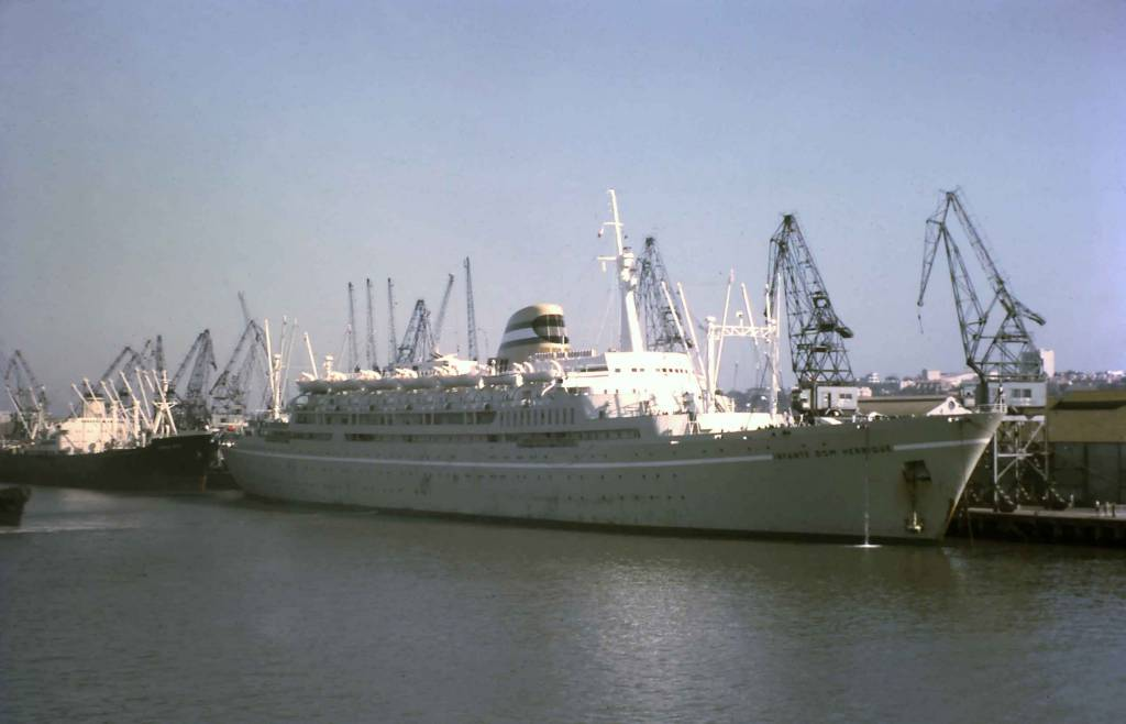 The liner Infante Dom Henrique moored at Lourenço Marques on December 23, 1967.